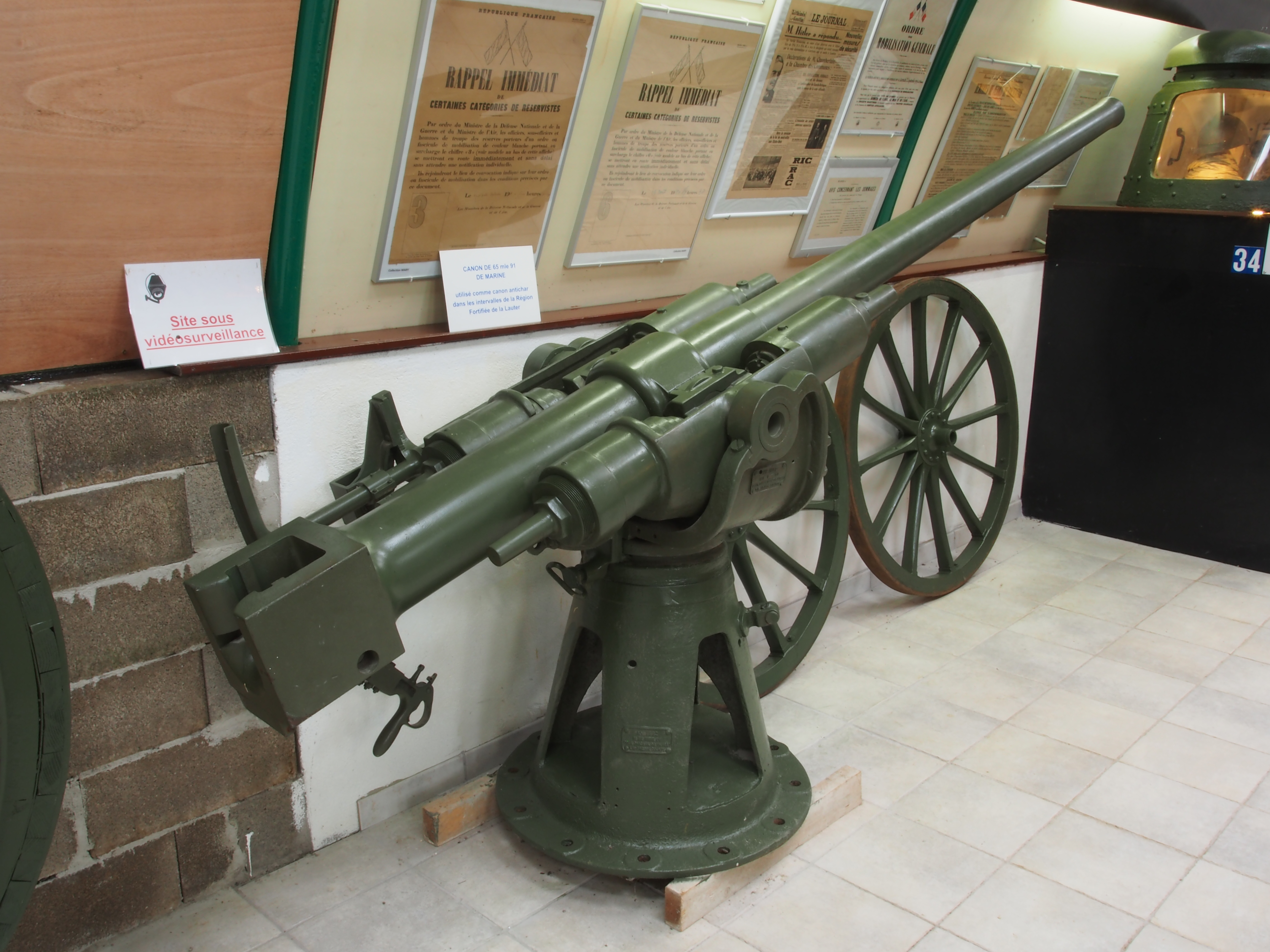 Fort de Fermont and its museum. 65 mm/49.2 (2.56 inches, 9-pounder) Model 1888/1891 navy gun used for anti-tank purposes (muzzle velocity of 715 m/s).